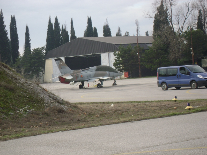 Montenegrian jet trainer aircraft G-4 super Galeb with new insignia.